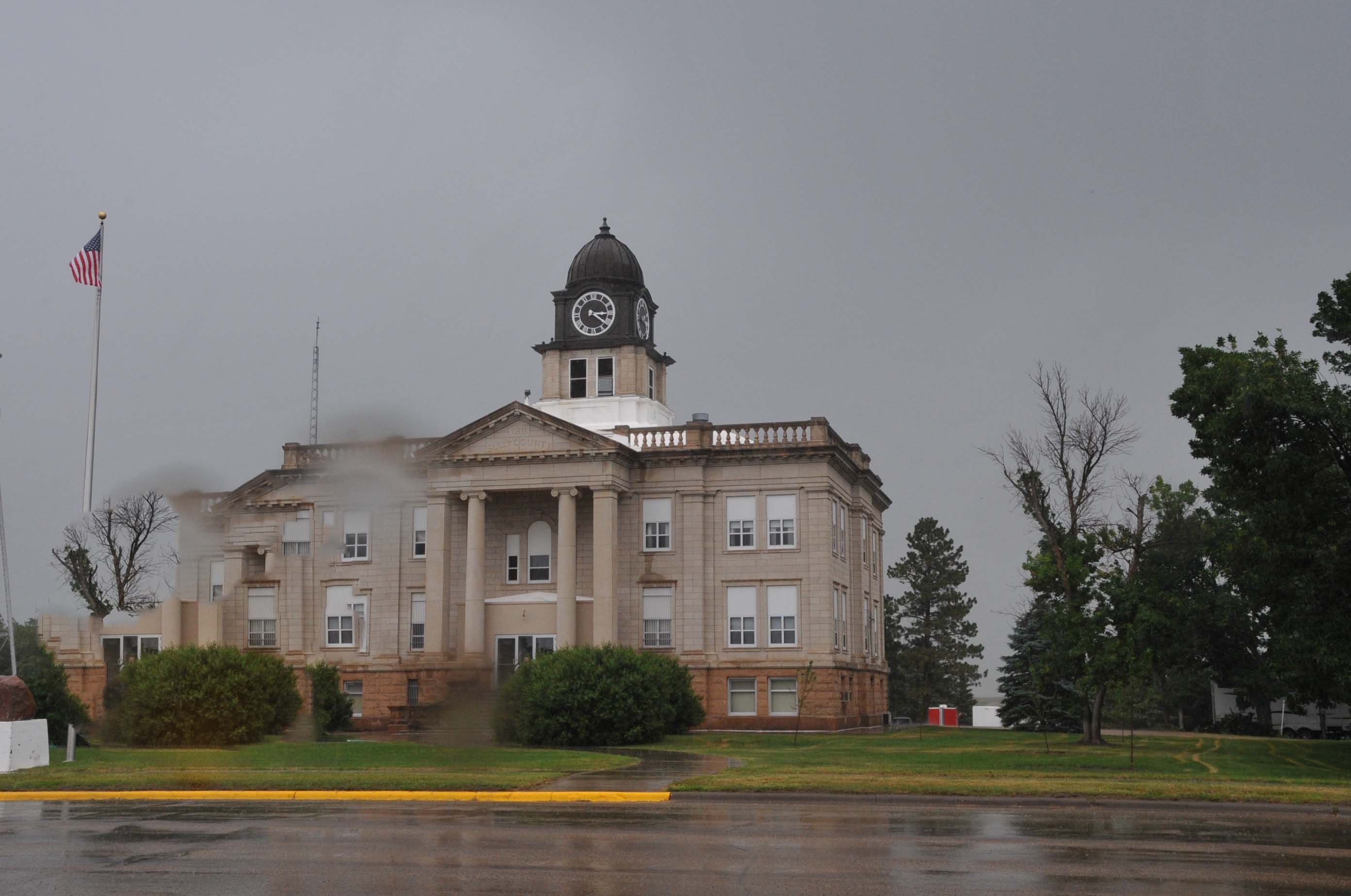 COURTHOUSE WAS ERECTED IN 1911 WITH CLASSICAL REVIVAL ELEMENTS. ITS ARCHITECT WAS W. M. RICH.